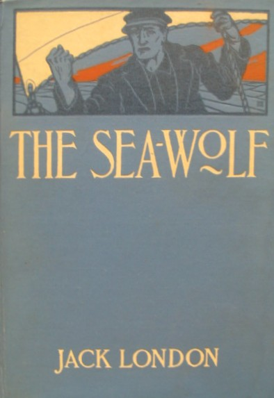 Cover of Sea-Wolf by Jack London, 1st ed., 1904